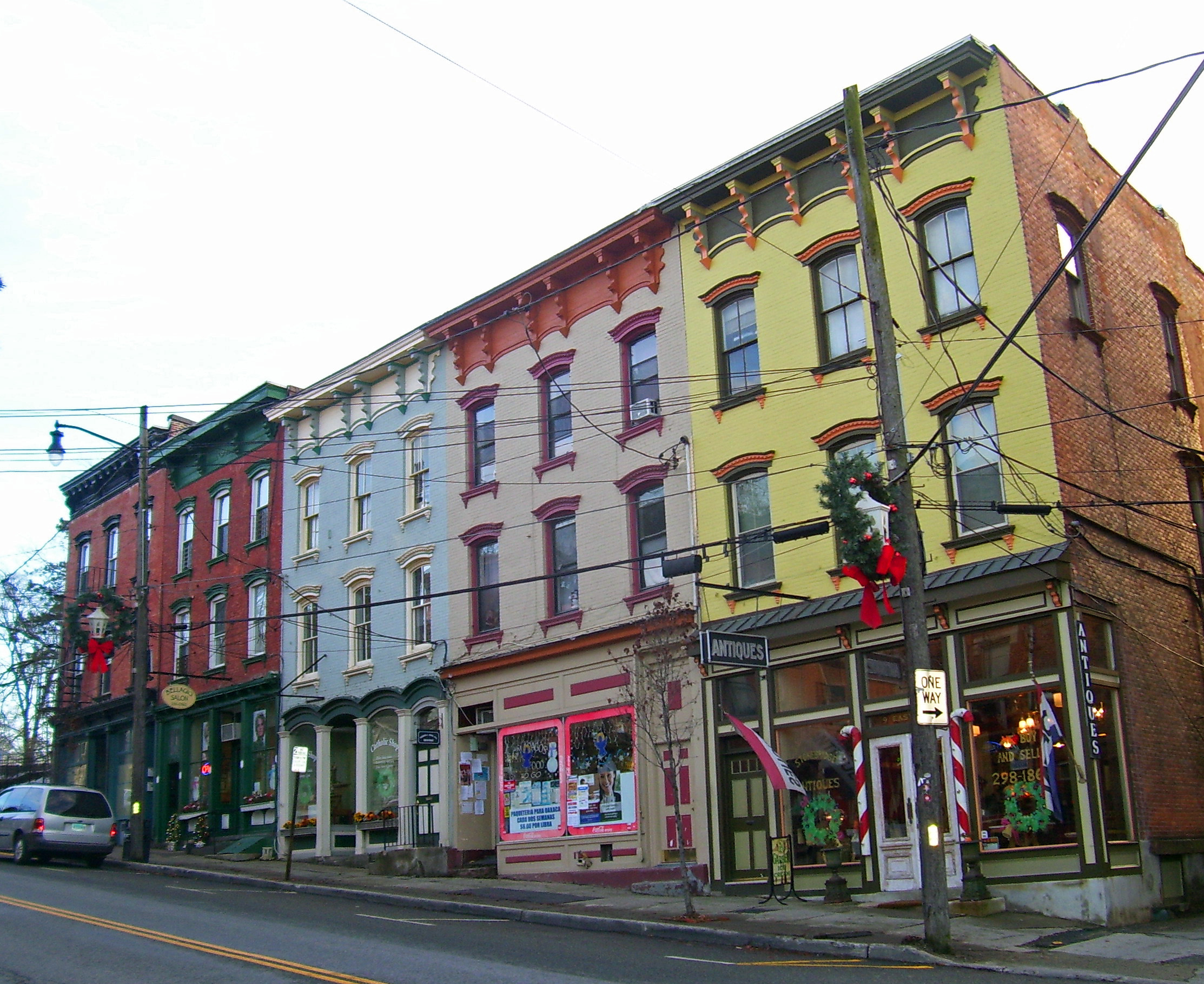 Buildings in downtown Wappingers Falls, NY, USA, part of the Wappingers Falls Historic District